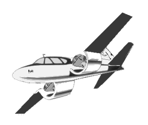 Drawing of a Custer Channel Wing Aircraft, self created 2006 by Dr. Wessmann